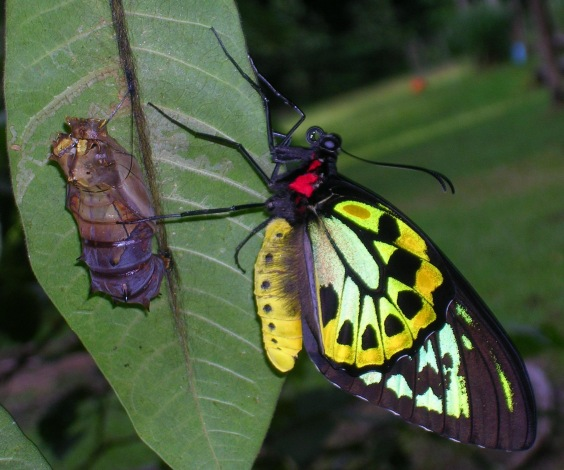 Photo taken by Alistair Hart, Kuranda, Queensland Australia. Cairns birdwing freshly emerged from chrysalis - still drying wings etc.